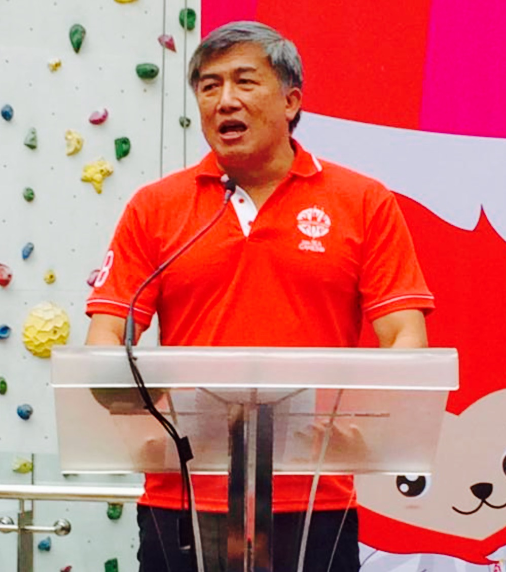 Picture taken at Kallang Wave during a speech in Singapore